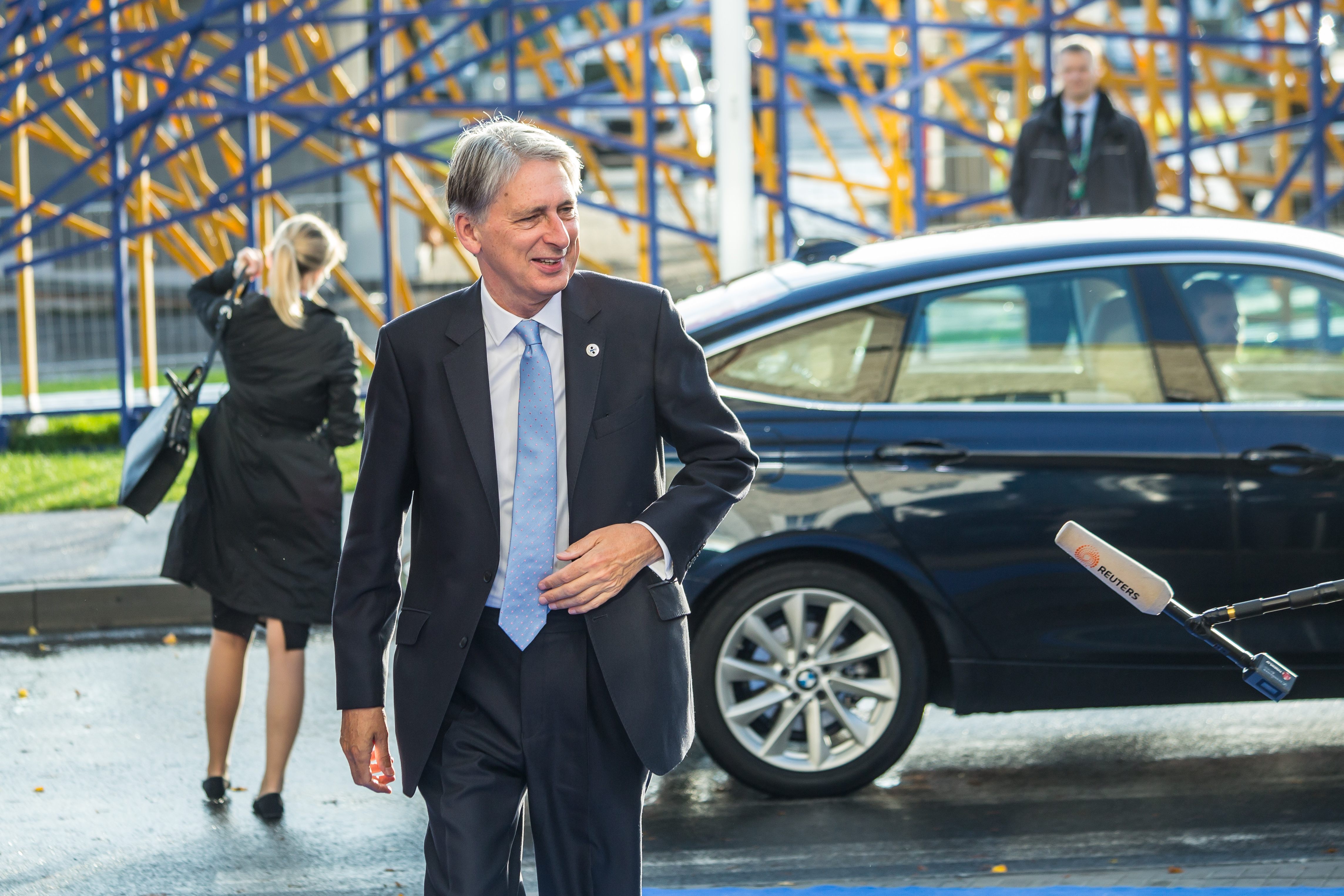 Philip Hammond, Chancellor of the Exchequer, HM Treasury, United Kingdom Photo: Aron Urb (EU2017EE)